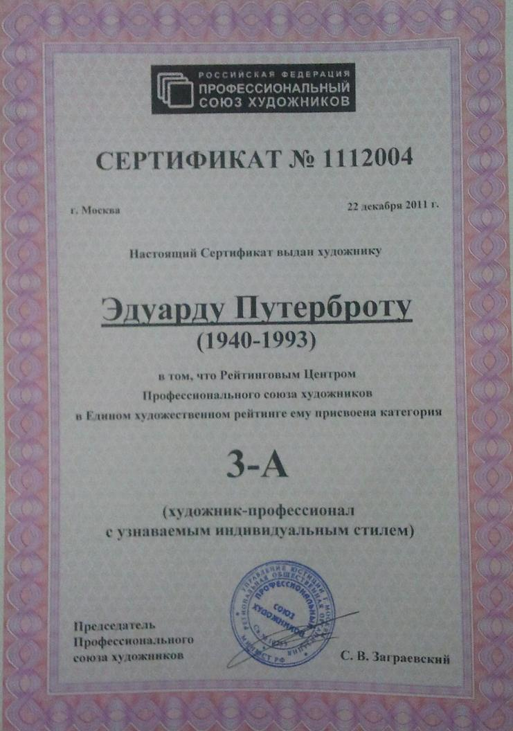 Certificate of Artists' Union given to Edward Puterbrot to certify his category in the Unified Art Rating